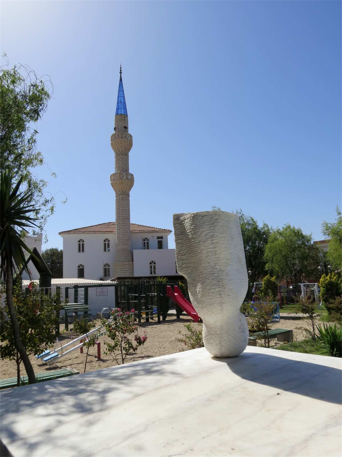 One of the three mosque in Gumusluk. This mosque is next to the Kadri Ozsari Parki in Gumusluk. It is on the north side of the street adjacent to the Post Office.